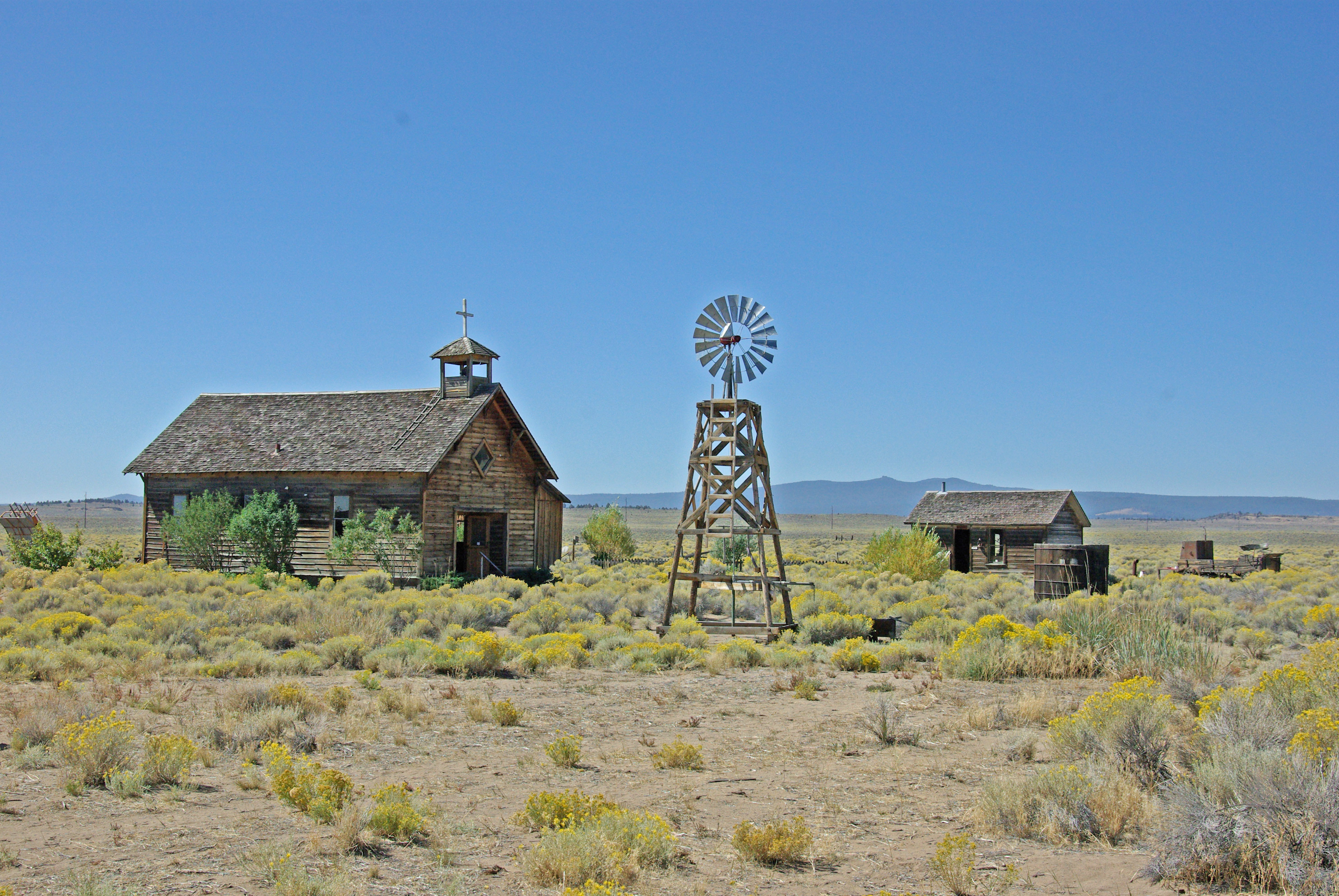 St. Rose's Catholic Church and windmill from homestead era in Fort Rock area